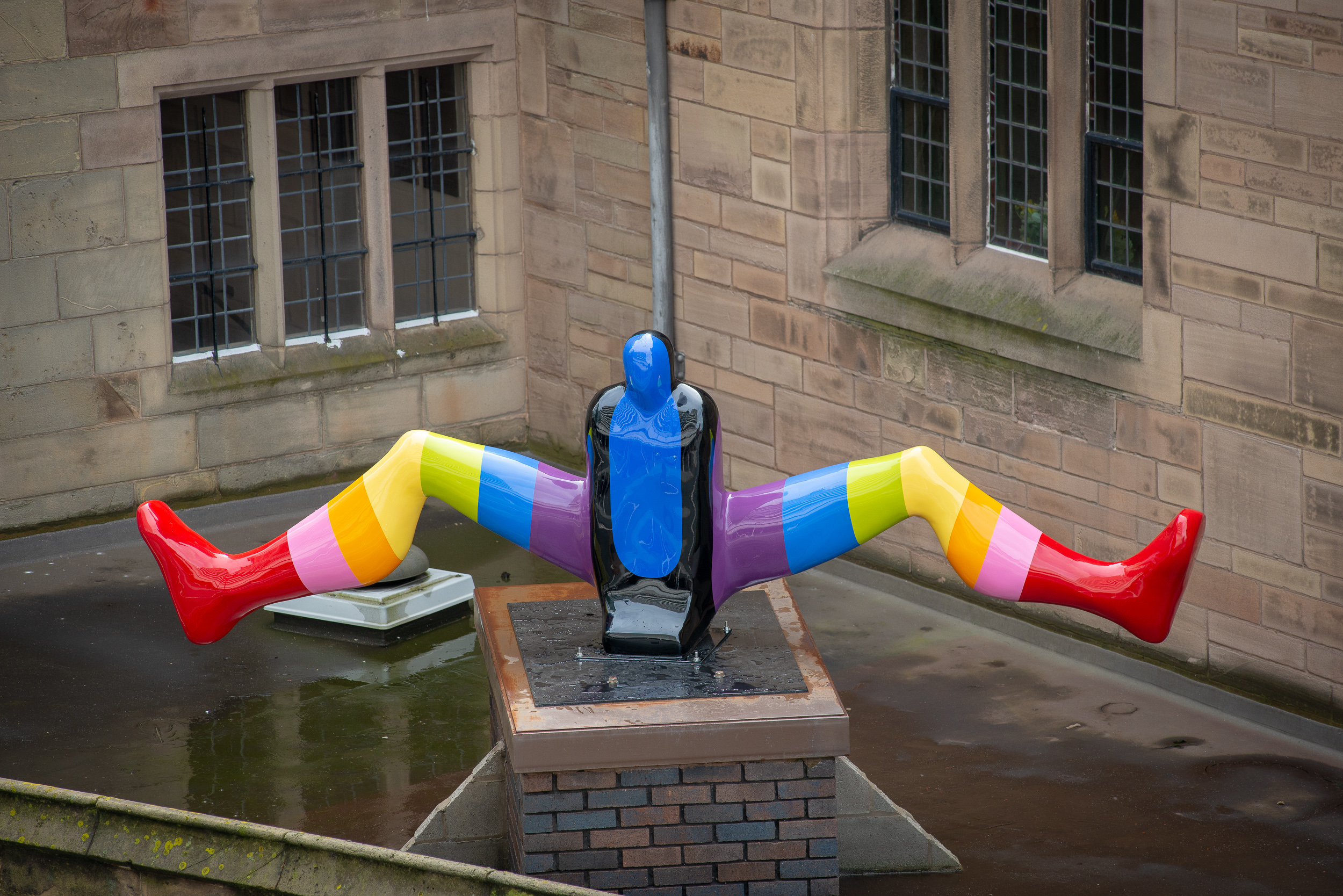 Split Decision by Sam Shendi, sculpture showcased in The Liverpool Plinth in 2019